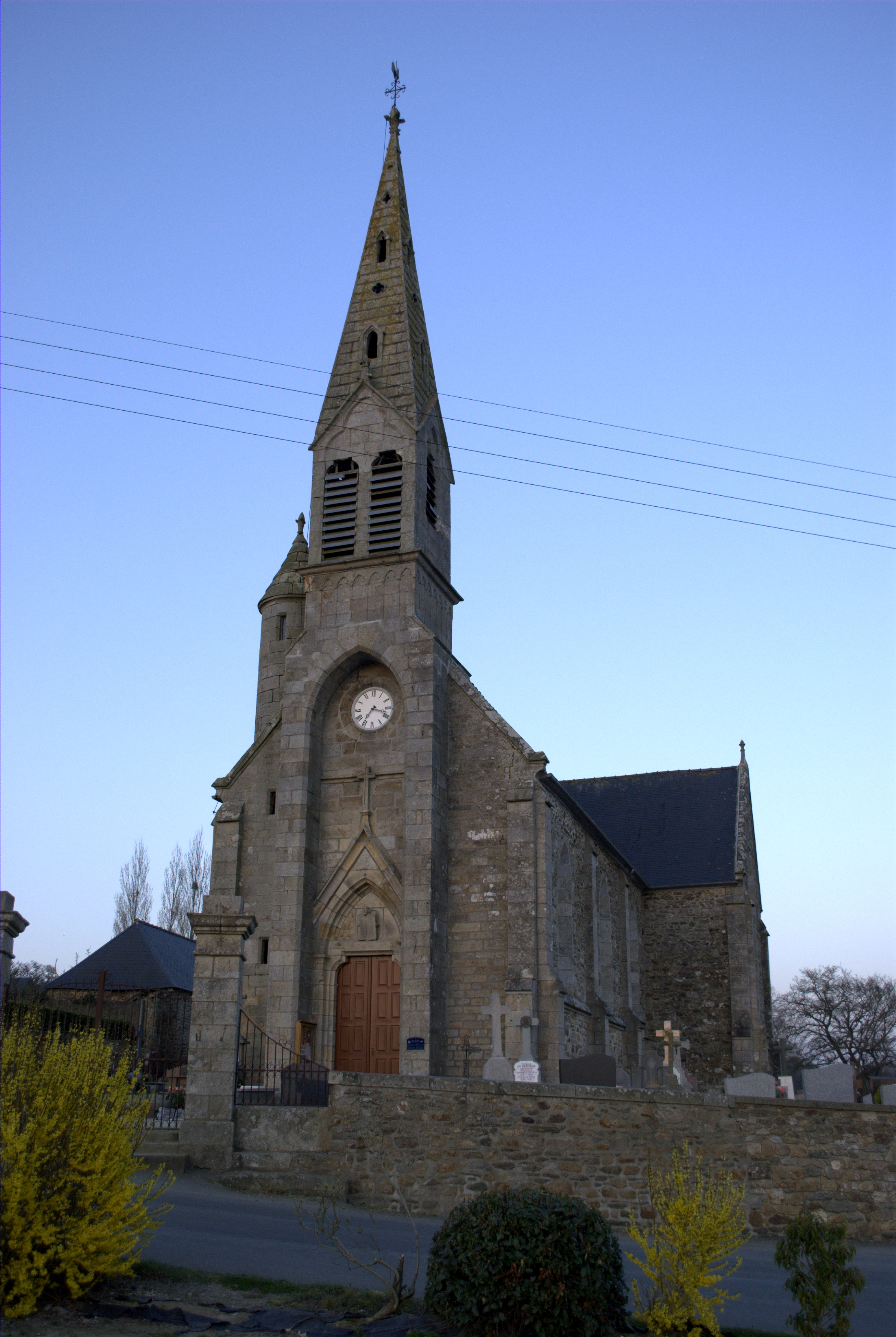 Church of Saint-Pierre in the village of Saint-Péver(France).